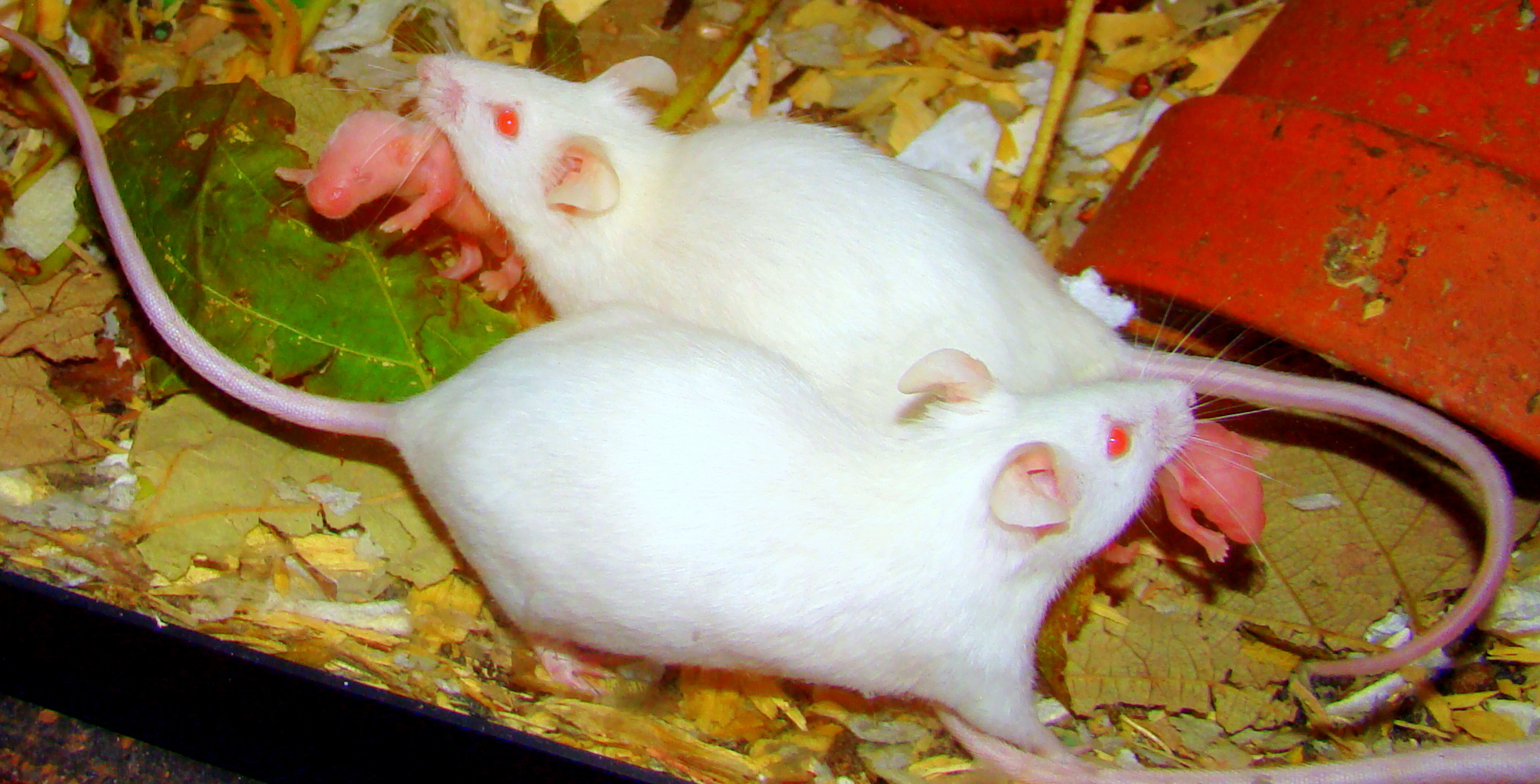 White pet mice's conflict of interest.JPG